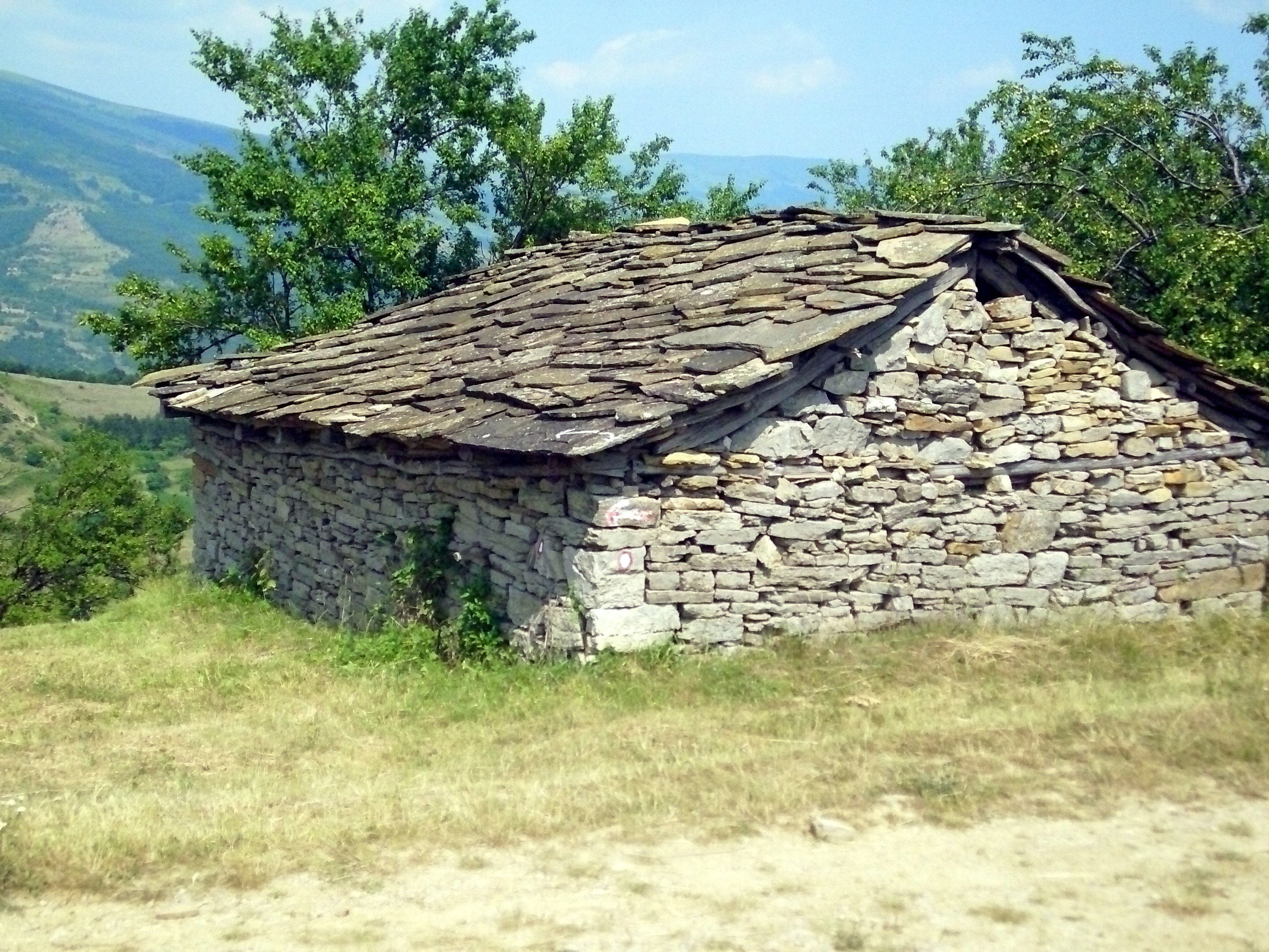 A typical house in the village on Mt Pokrevenik, covered with stone slabs. Stone house in Serbia.